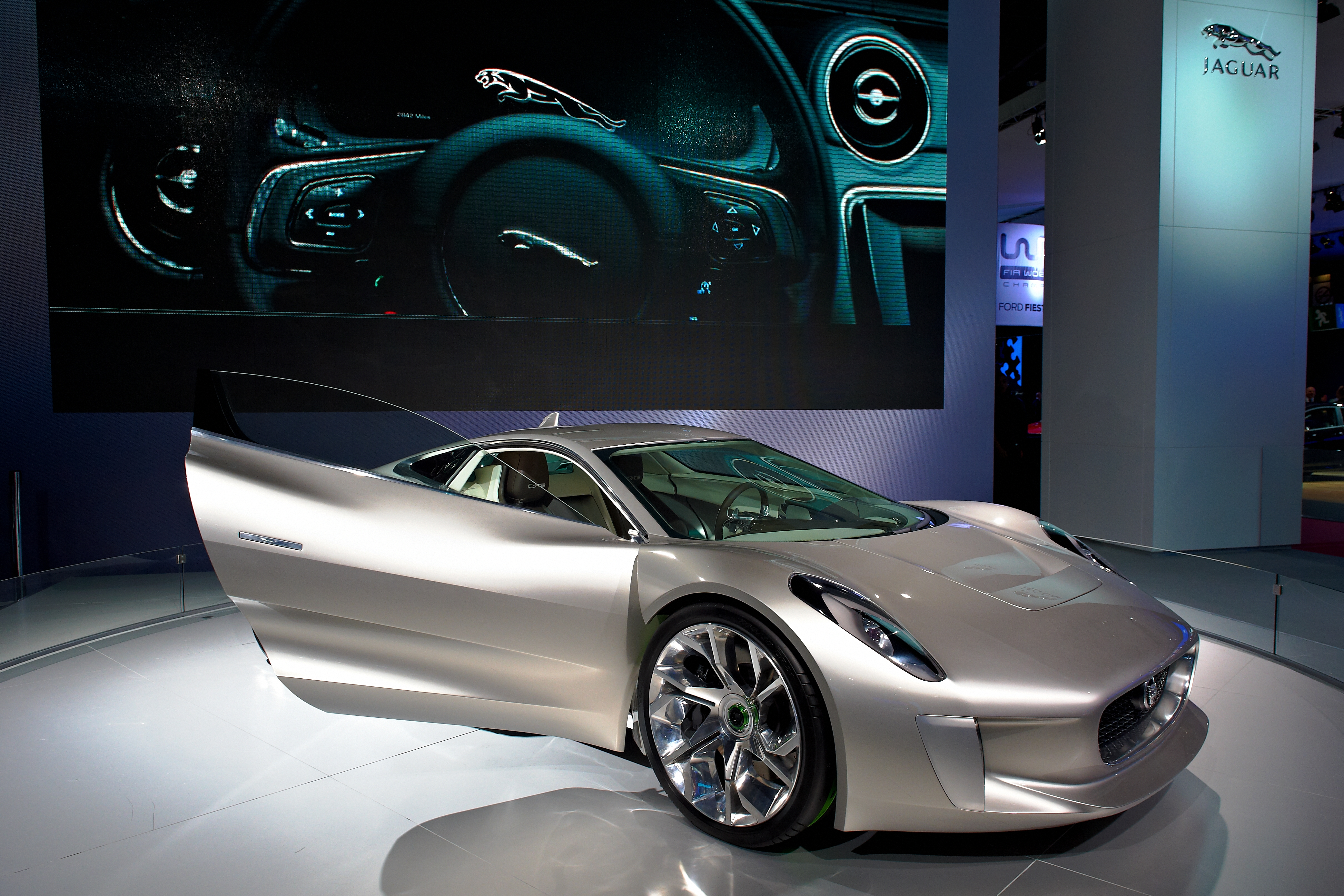 A Jaguar C-X75 concept car at the 2010 Paris Motor Show.